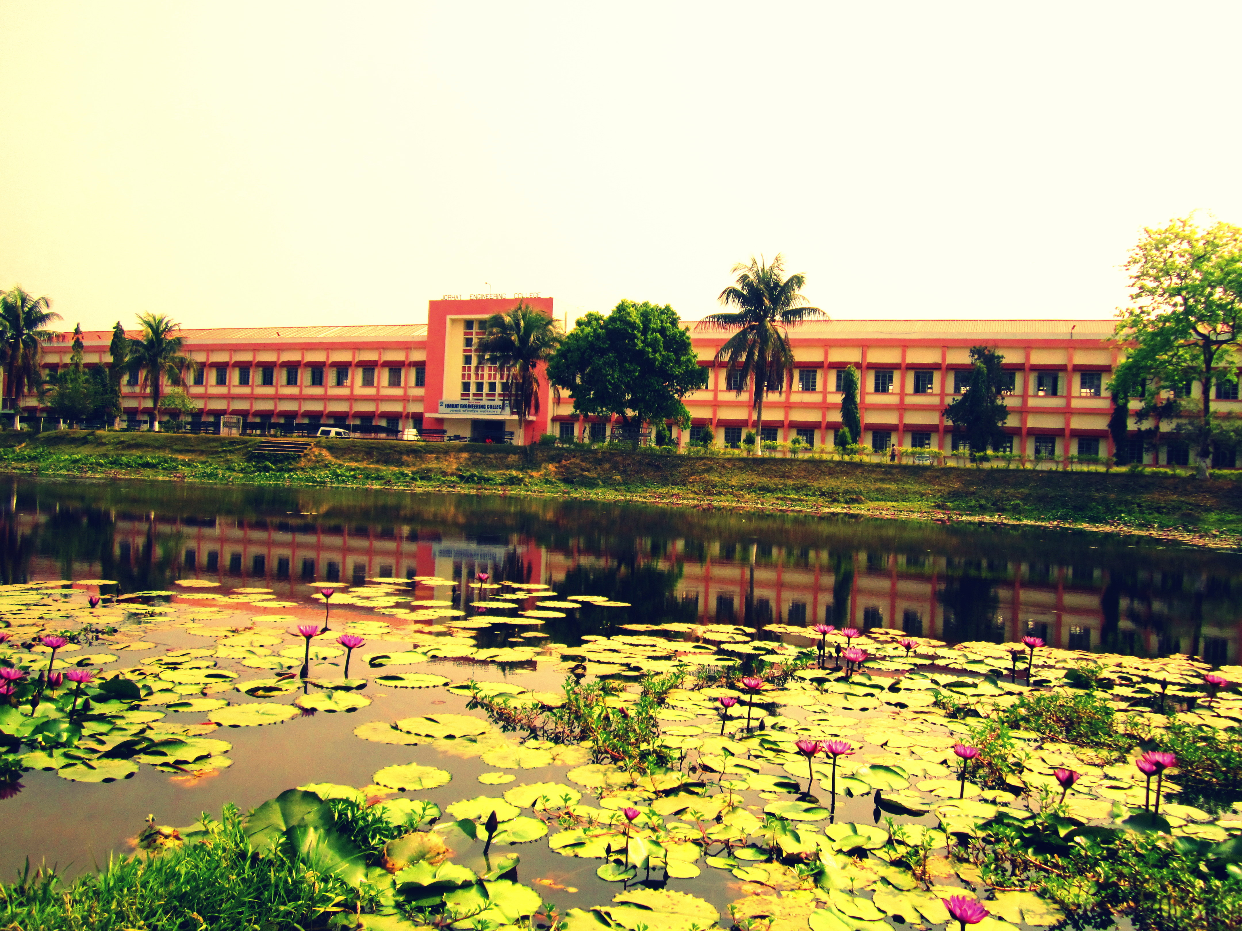 spring time